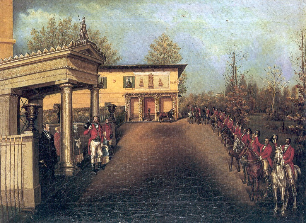 Welcoming of Prince Carl von Preußen by Red Hunters in front of Glienicke castle